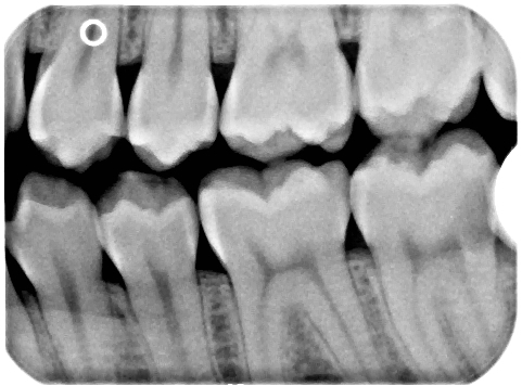 This is part of a series of dental X-rays of my mouth. If you know a little more about teeth than me, and are able to provide a better description of what this image shows, please edit this!